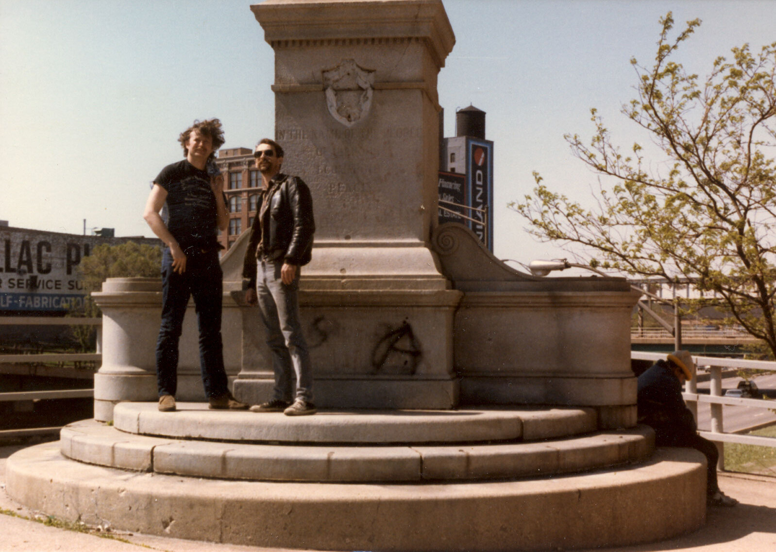 photo from the Carpchives of Einar Einarsson Kvaran for Haymarket Riot - I think.